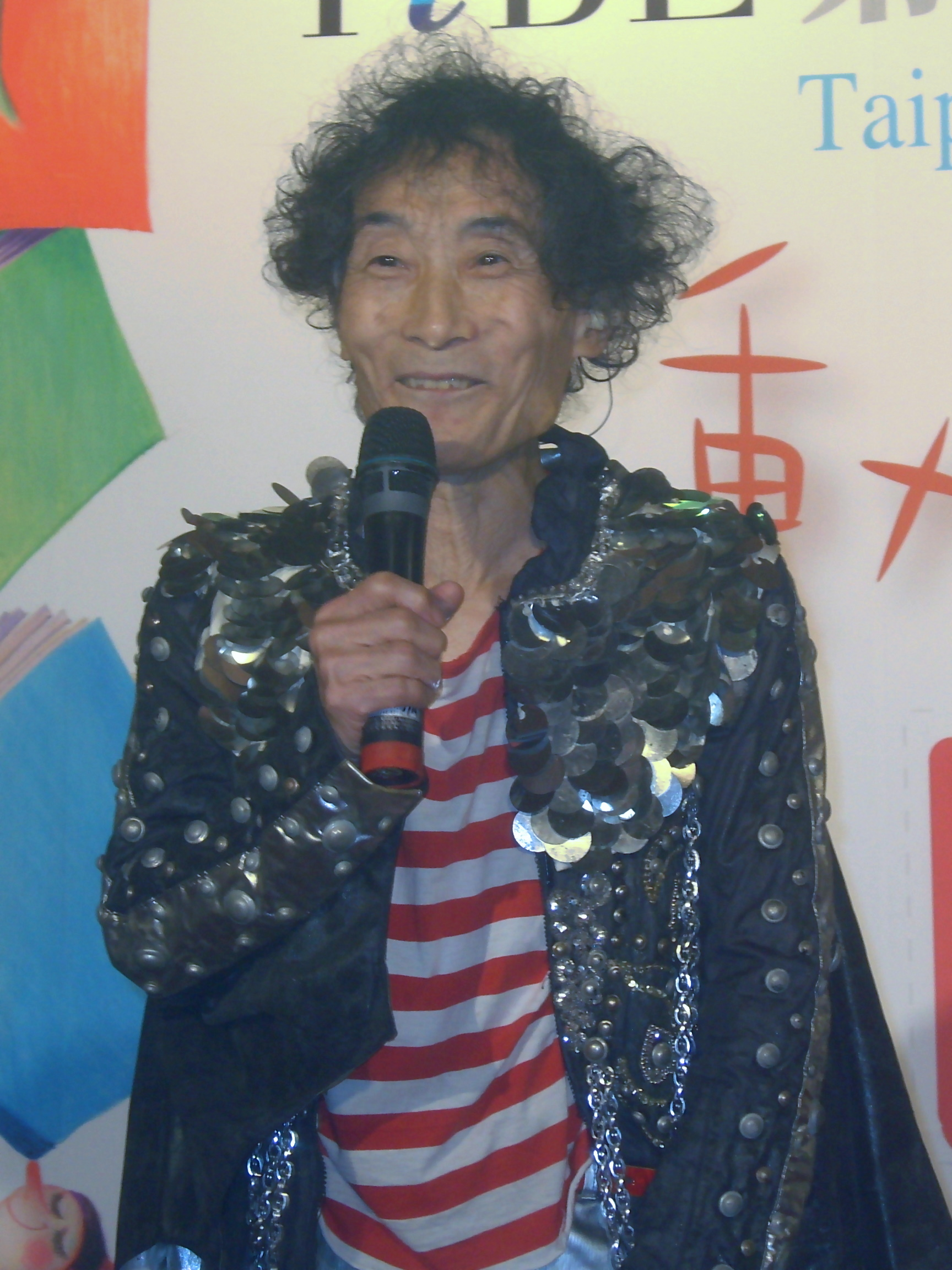 2010 Taipei International Book Exhibition: Kazuo Umezu.中文（台灣）: 楳圖一雄出席2010年臺北國際書展。